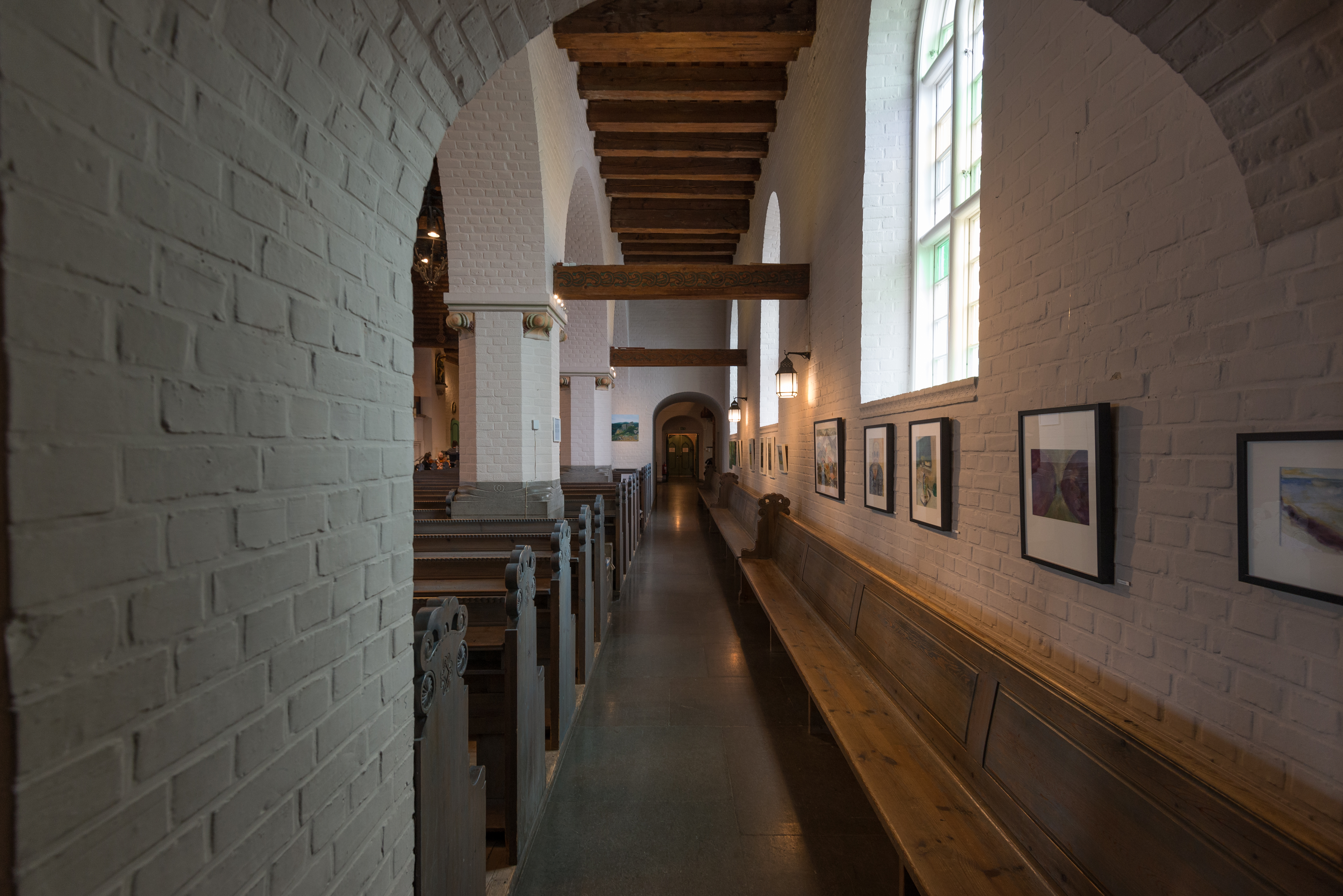 Side-aisle in Masthuggskyrkan (Masthugget Church) built in 1914. Gothenburg, Sweden. The church represents the national romantic style in Nordic architecture and was drawn by Sigfrid Ericson. Göteborgs Masthuggs Parish, Diocese of Gothenburg, Church of Sweden.